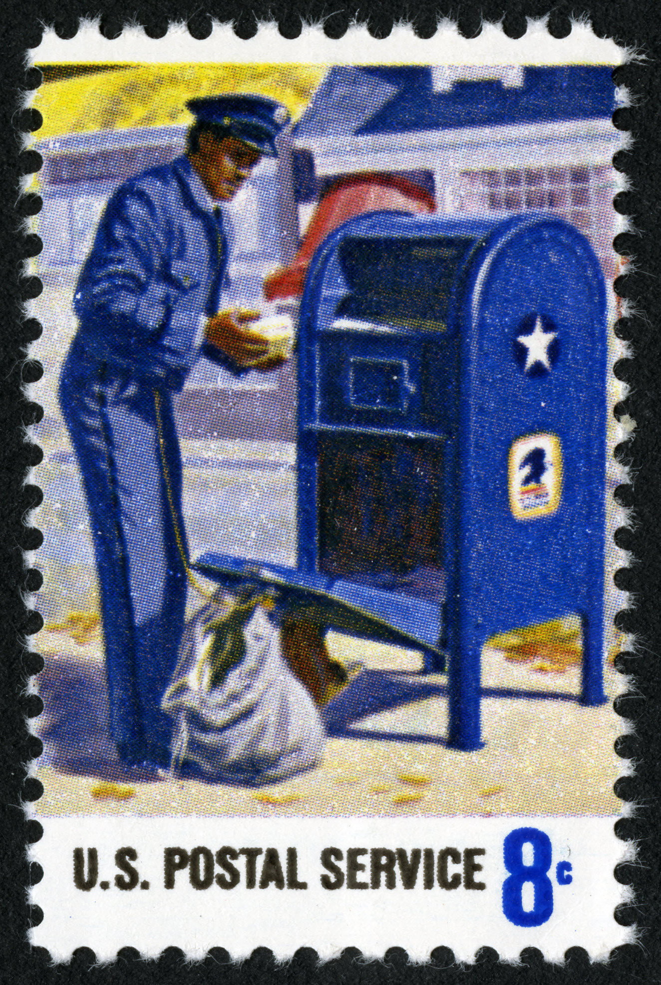 Postal Service Employees - Mail Collection - 8-cent 1973 issue U.S. stamp.